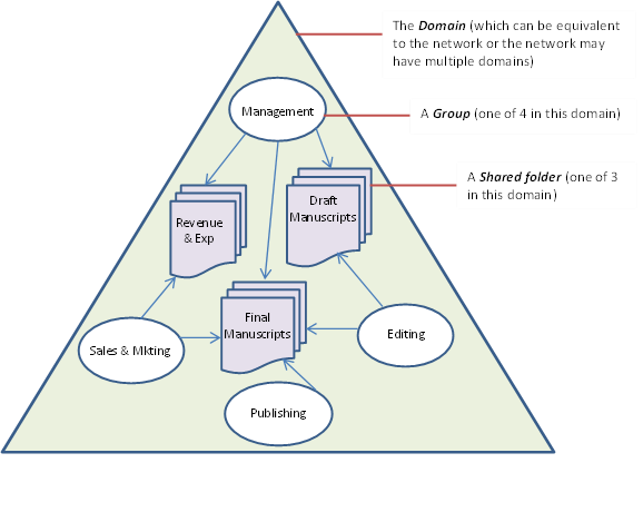 A simplified example of a publishing company's internal network. The company has four groups (that correspond to its Departments) with varying permissions to the three shared folders on the network which reflect their respective needs and functions within the company. Management has access to all folders; Sales & Marketing has access to the Revenue & Expenditure and Final Manuscripts folders; Editing has access to the Draft Manuscripts and Final Manuscripts folders; and Publishing has access only to the Final Manuscripts folder.